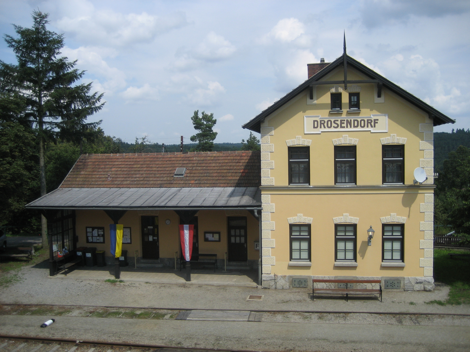 train station Drosendorf located in Drosendorf-Zissersdorf, Lower Austria